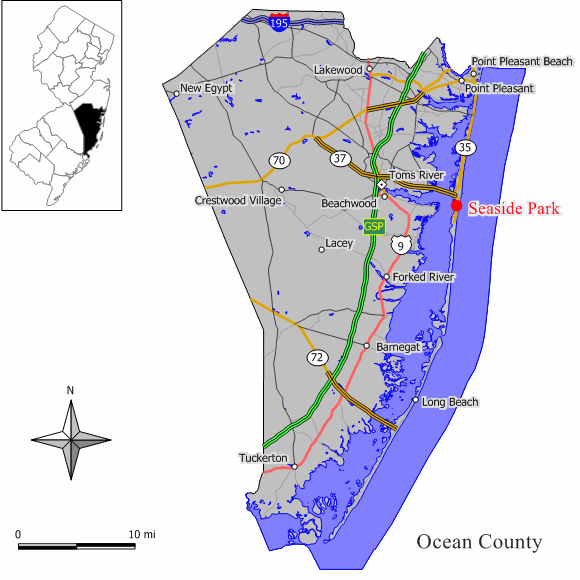 Source: Jim Irwin Original work by Jim Irwin, December 2005.